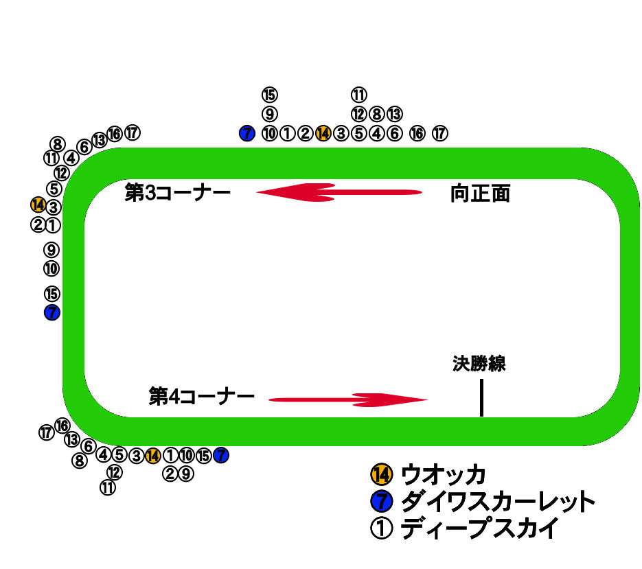 the 138th tenno sho(autamn)